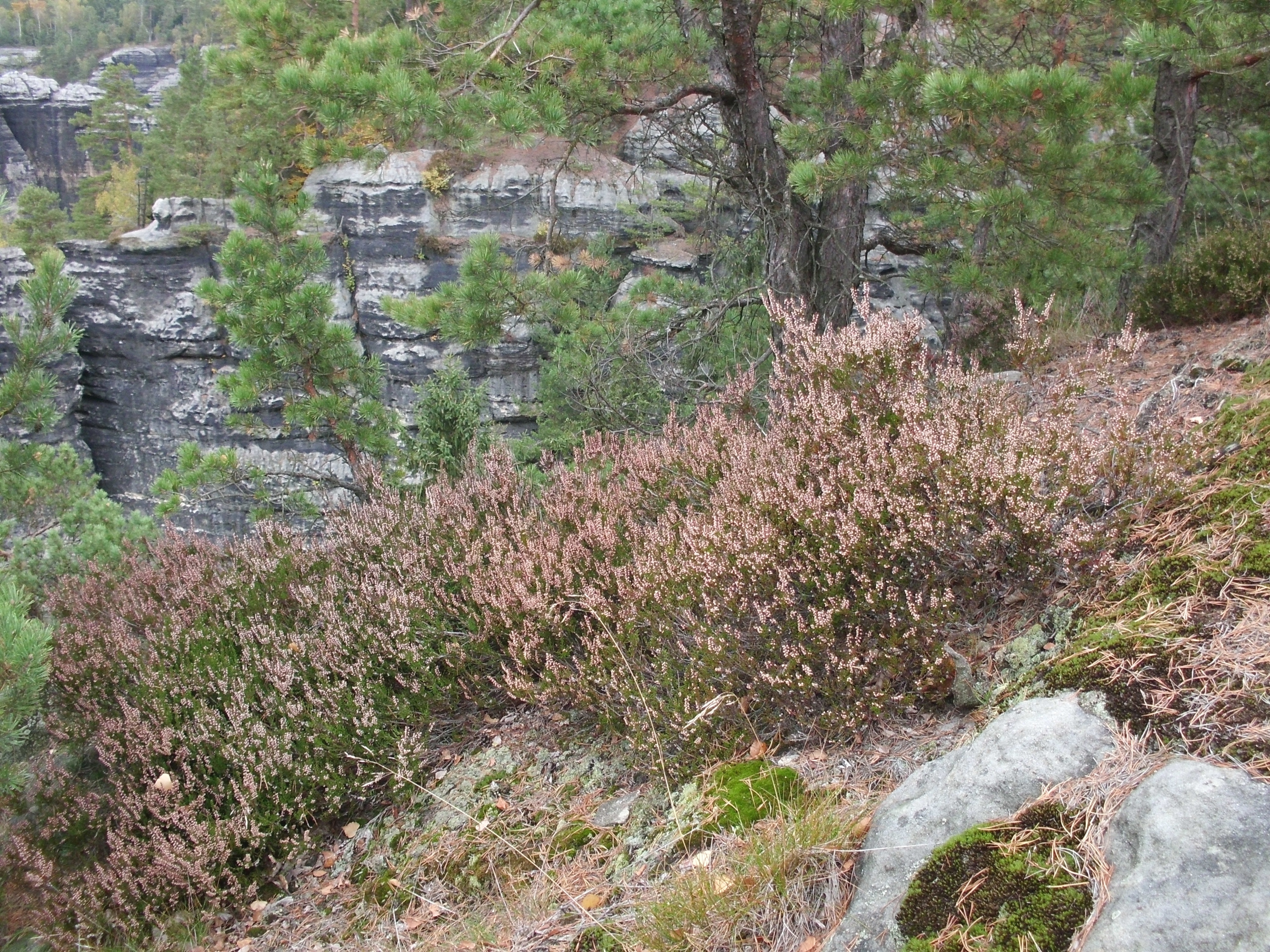 Calluna vulgaris in national natural monument Pravčická brána in Děčín District, Czech Republic